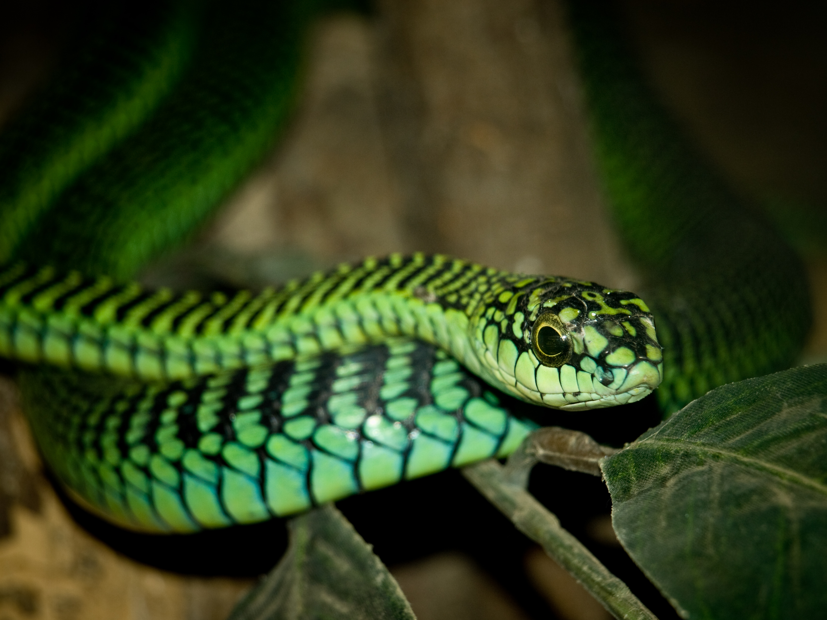 Close-up of a boomslang snake through glass at the snake centre near our campsite in the Ngorongoro Conservation Area, Tanzania